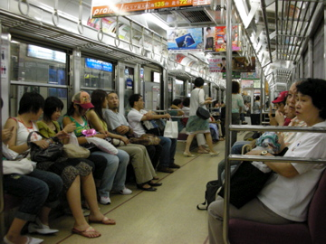 A look inside a train on the Keio Inokashira Line while it waits for departure at Kichijoji Station.